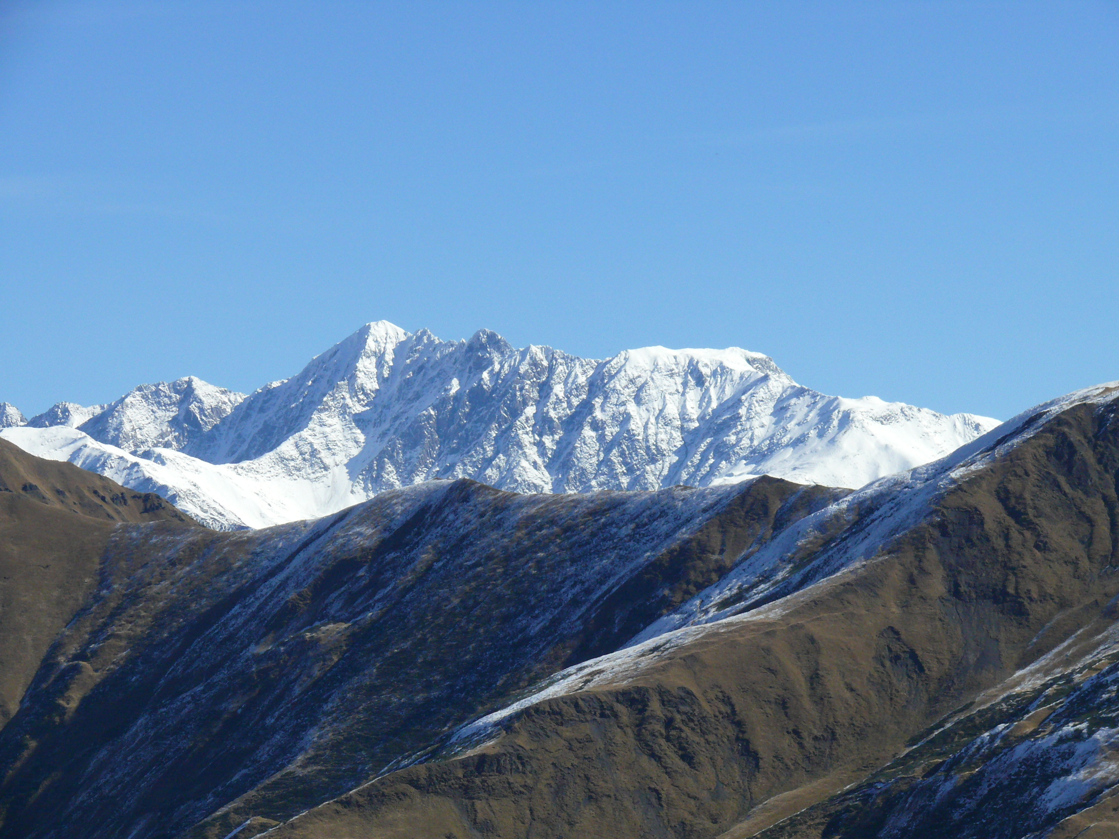 Maistismta. South-western view from the main ridge near the დათვისჯვარი უღელტეხილი (Bear cross pass).